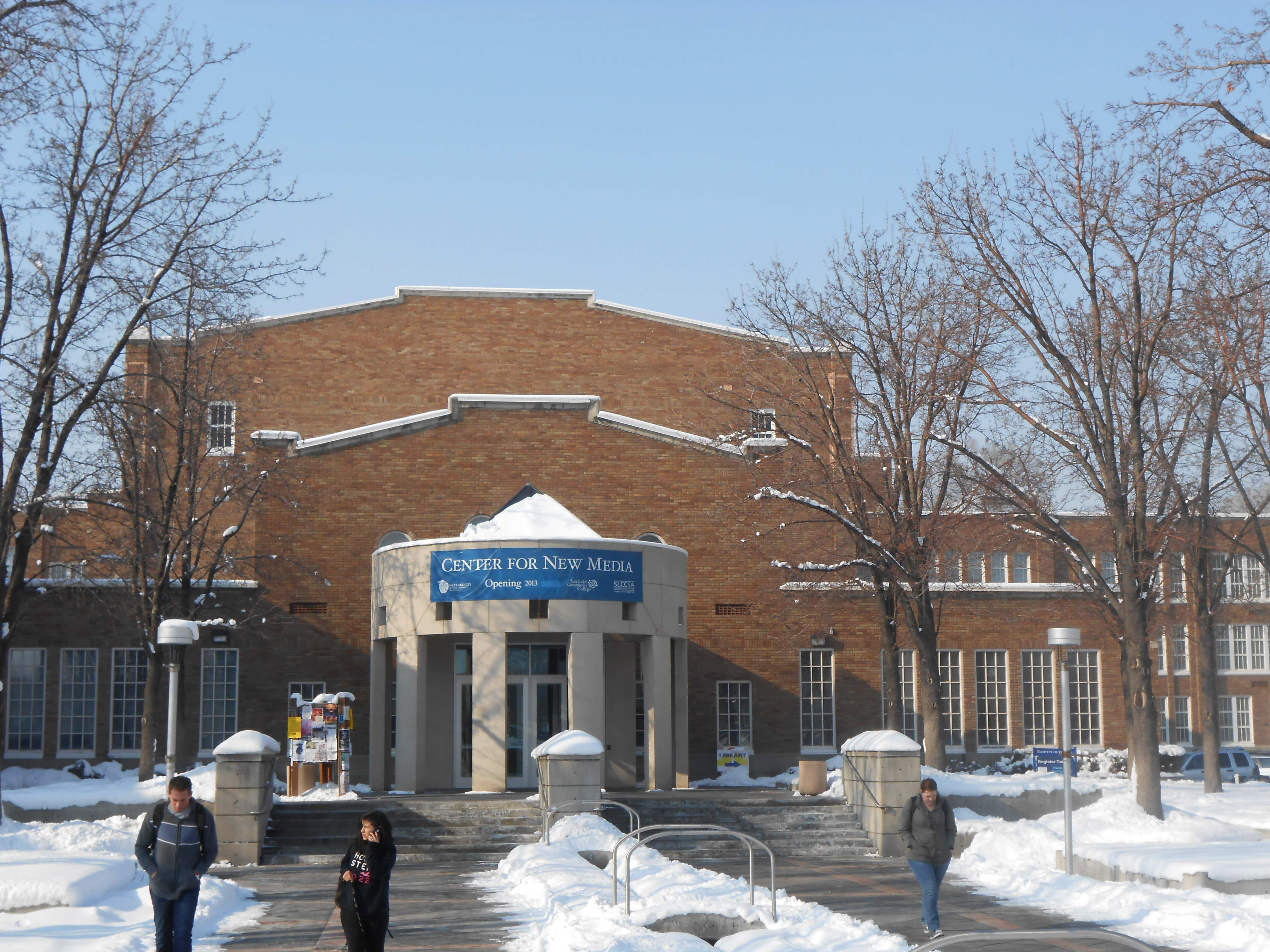 Rear entrance to South High School (Salt Lake City)